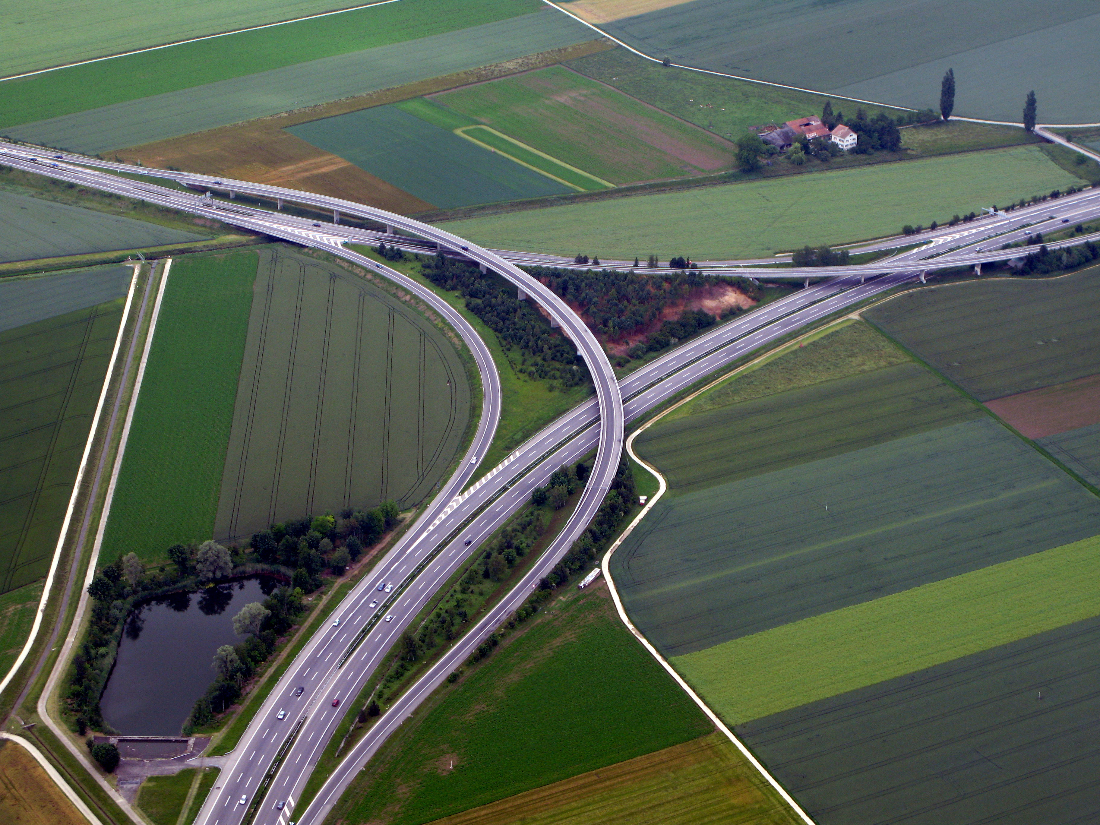 Interchange (A1 and A9) of Essert-Pittet near Lausanne